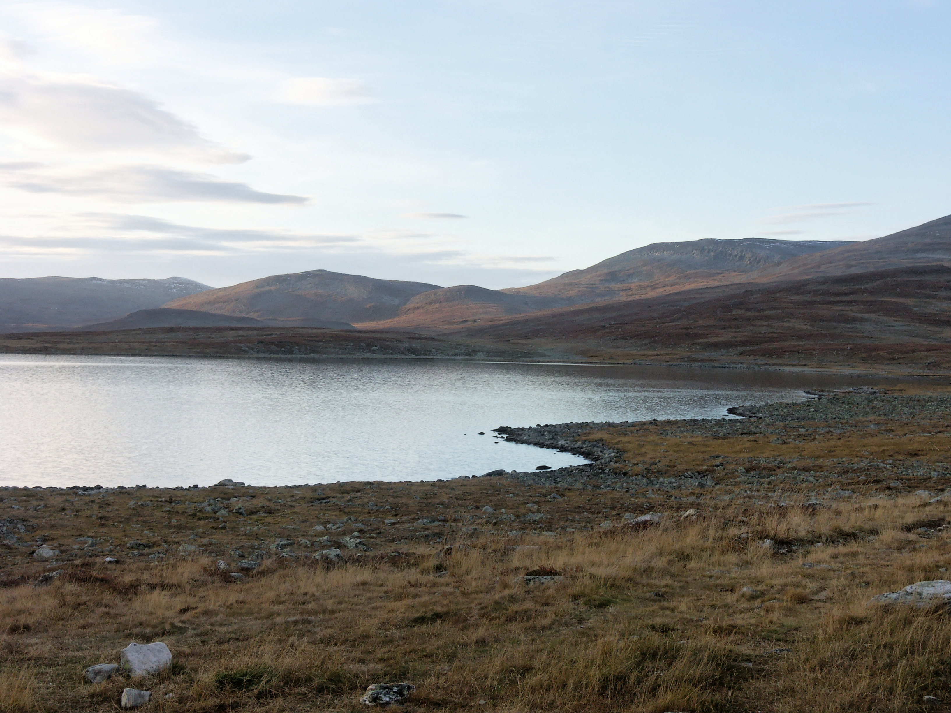 Sunset over Pihtsusjärvi along the Nordkalotten trek.